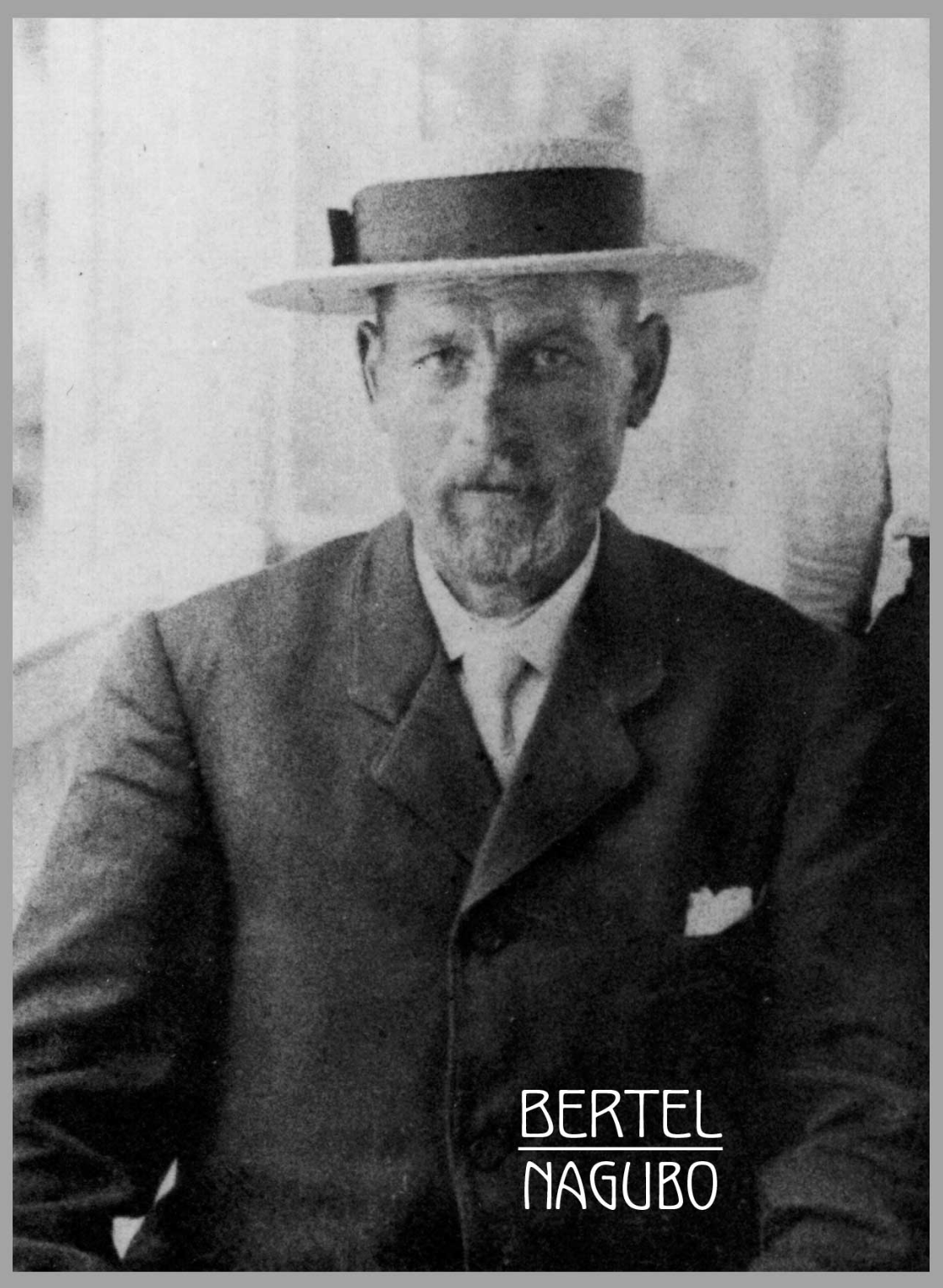 Picture used as symbol for fictitious character Bertel Nagubo